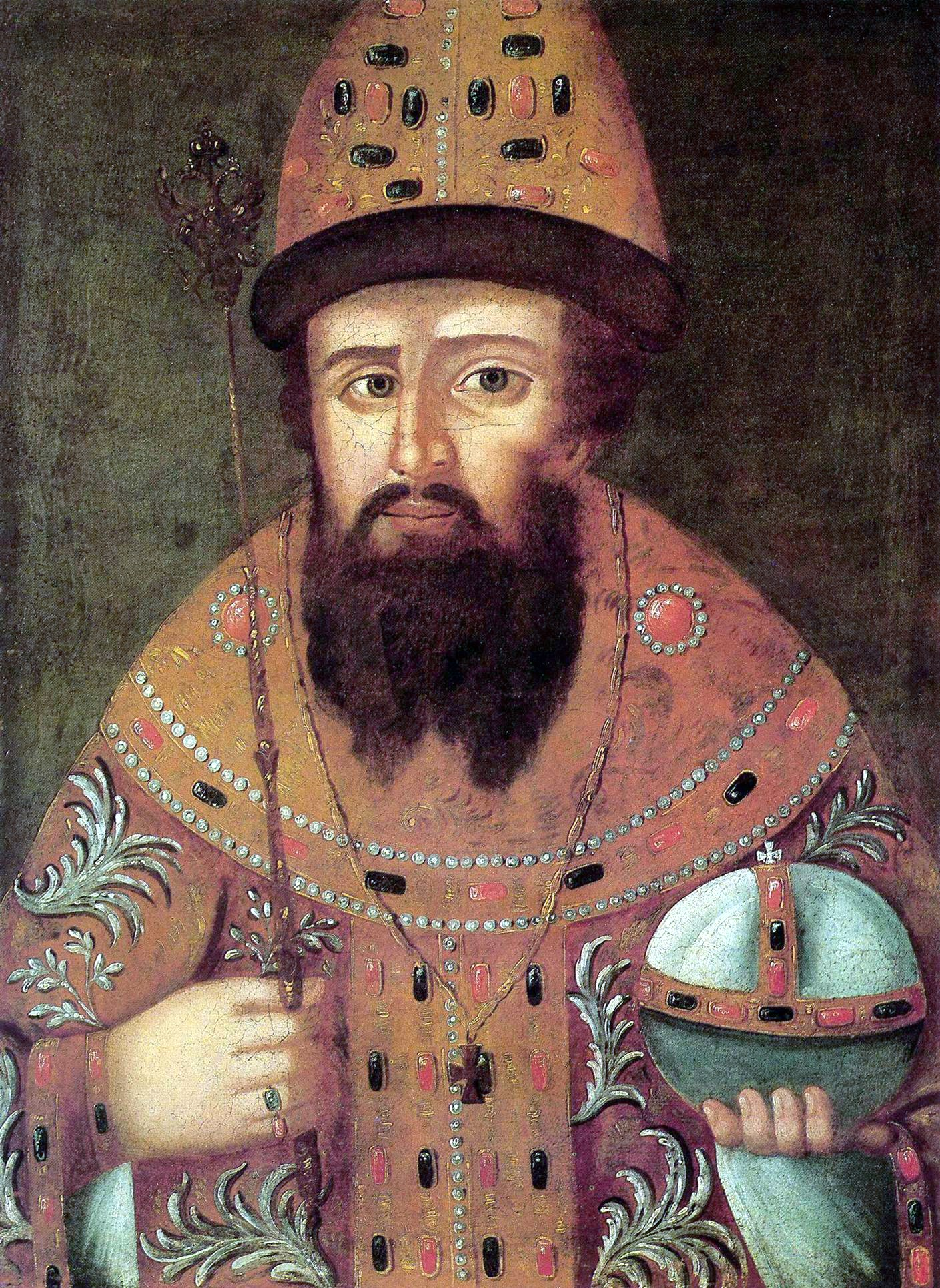 Michael of Russia